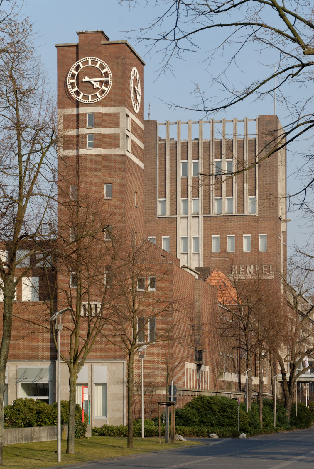 House Henkel in Düsseldorf-Holthausen, Germany, architect: Walter Furthmann